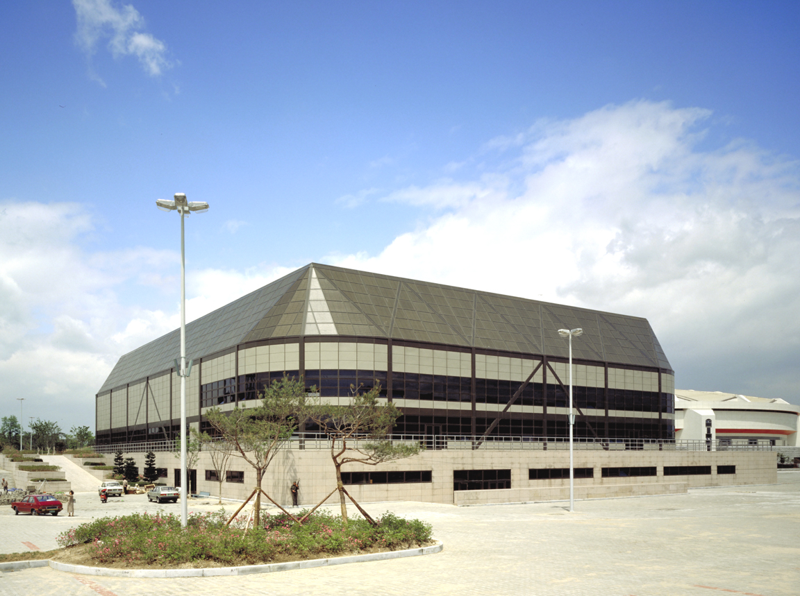 Seoul, Weight-lifting Gymnasium for '88 Olympics, 1984-1986